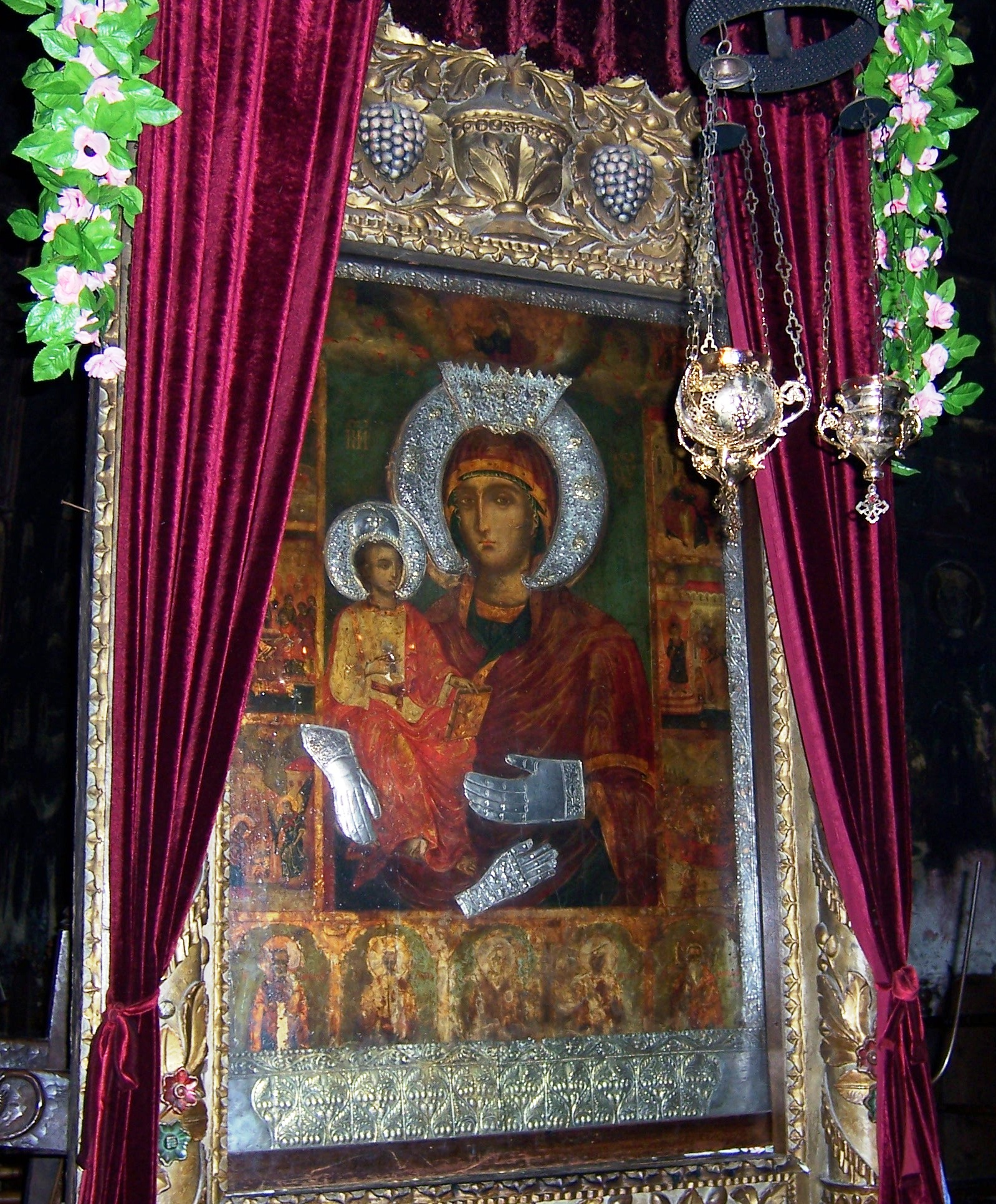 Image of the Three-Handed Virgin at the Troyan Monastery near Troyan, Bulgaria.